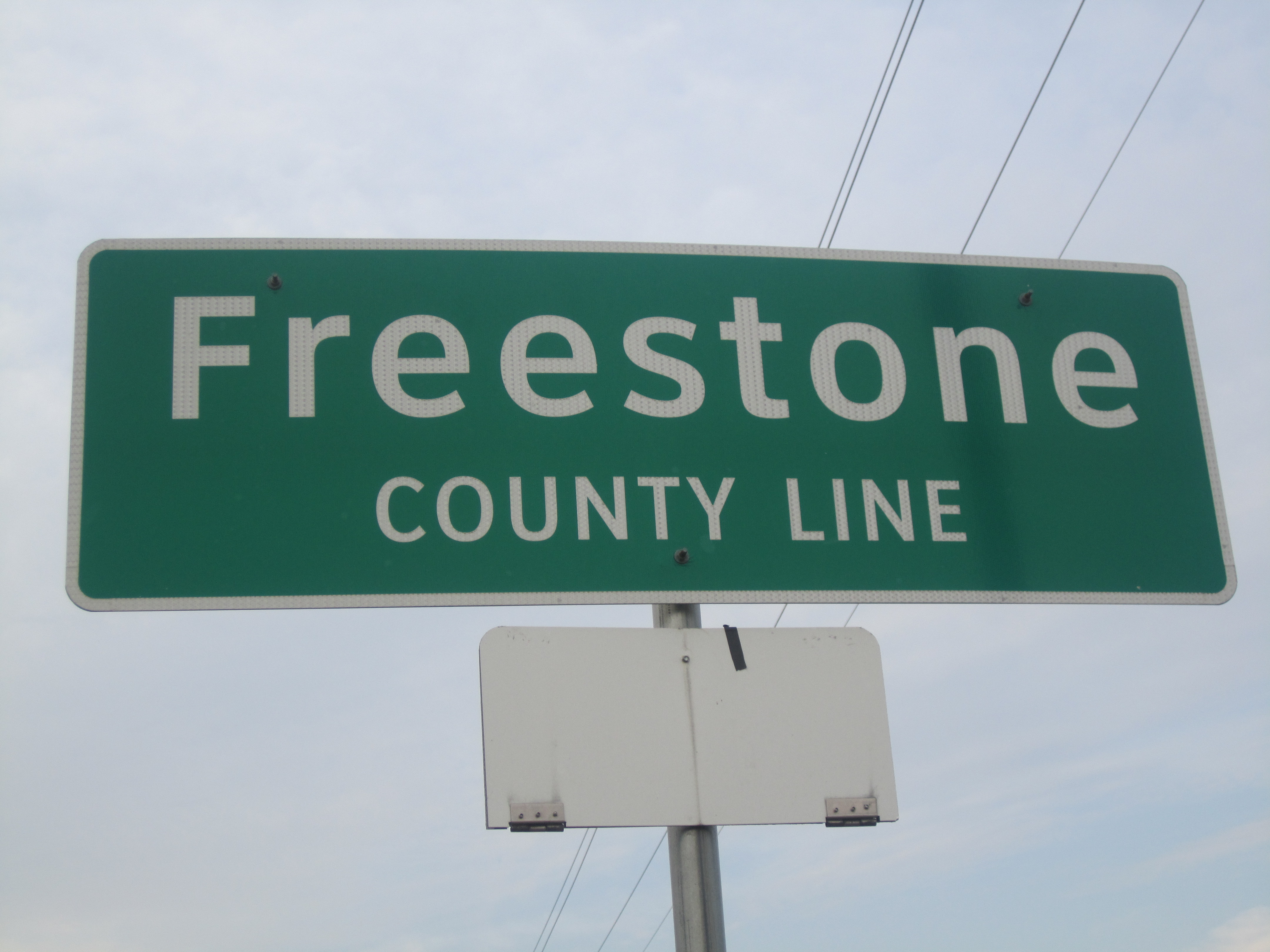 I took photo of Freestone County, TX, with Canon camera.